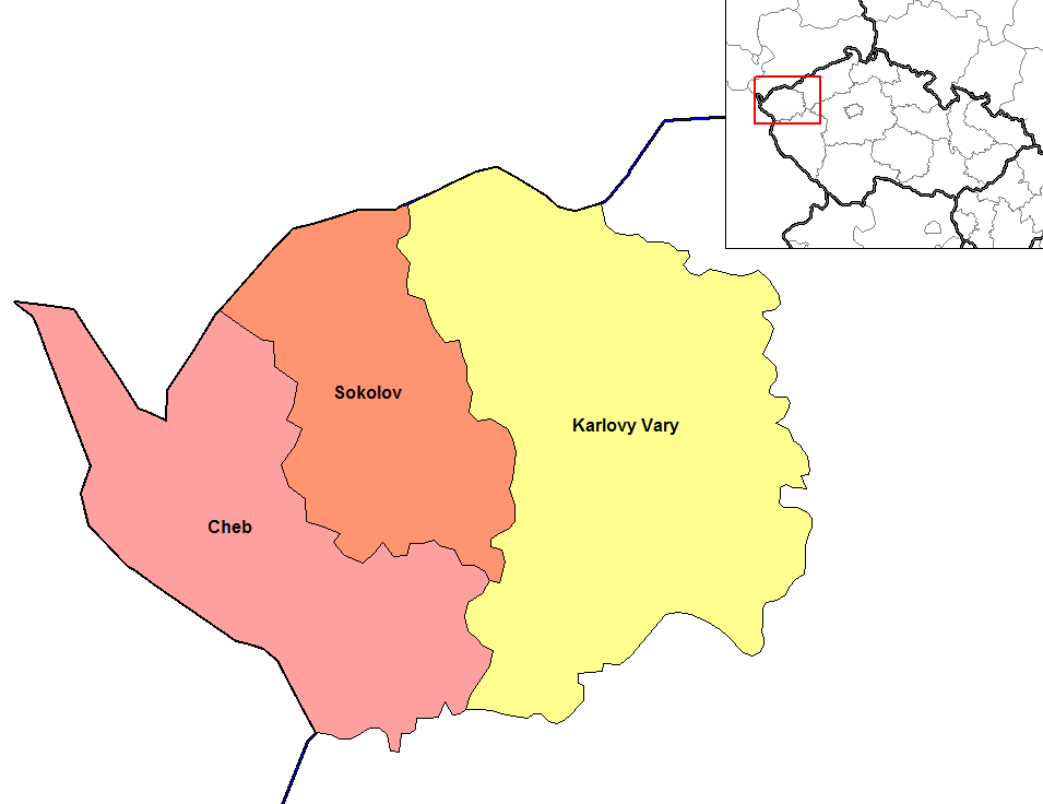 Map of the districts of Carlsbad region of the Czech Republic. Created by Rarelibra 15:06, 2 January 2007 (UTC) for public domain use, using MapInfo Professional v8.5 and various mapping resources.